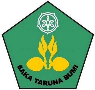 saka taruna bumi's logo